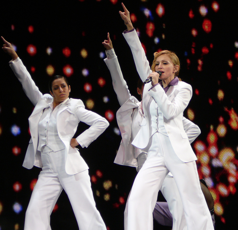 Picture taken at the concert